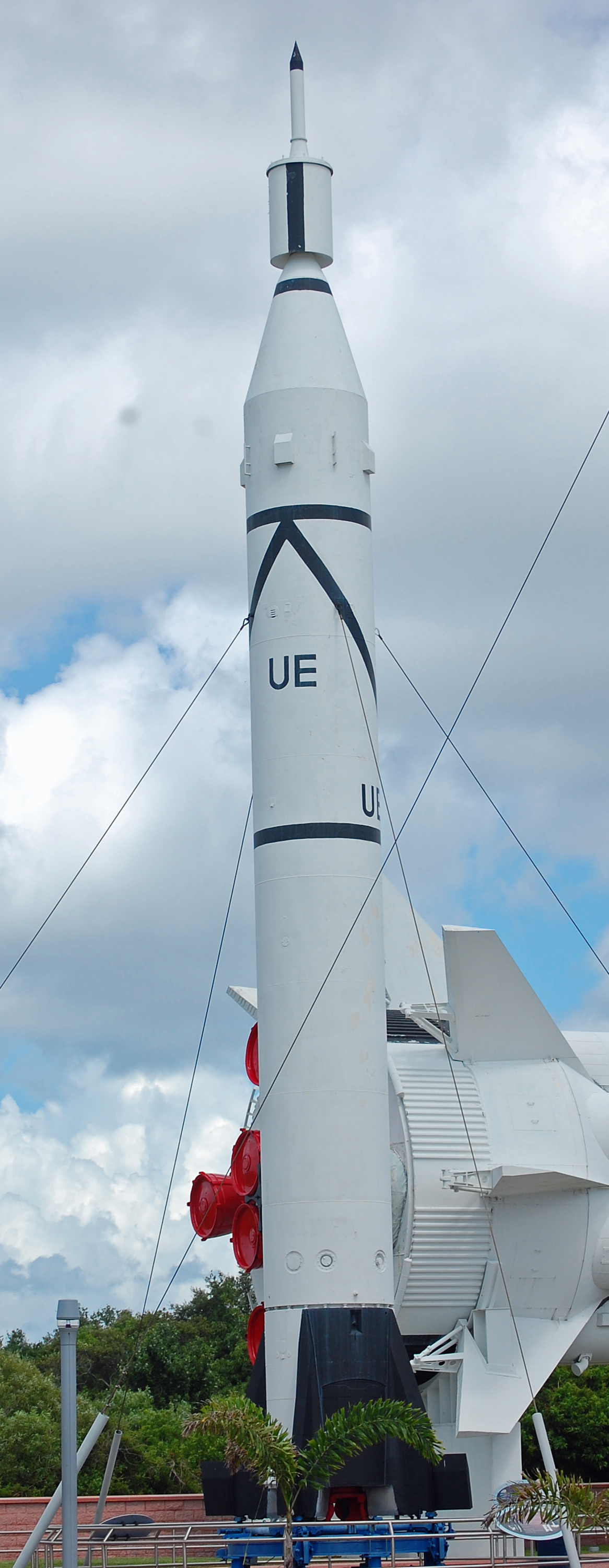 Juno I with Explorer I mock-up at Kennedy Space Center Visitors Center